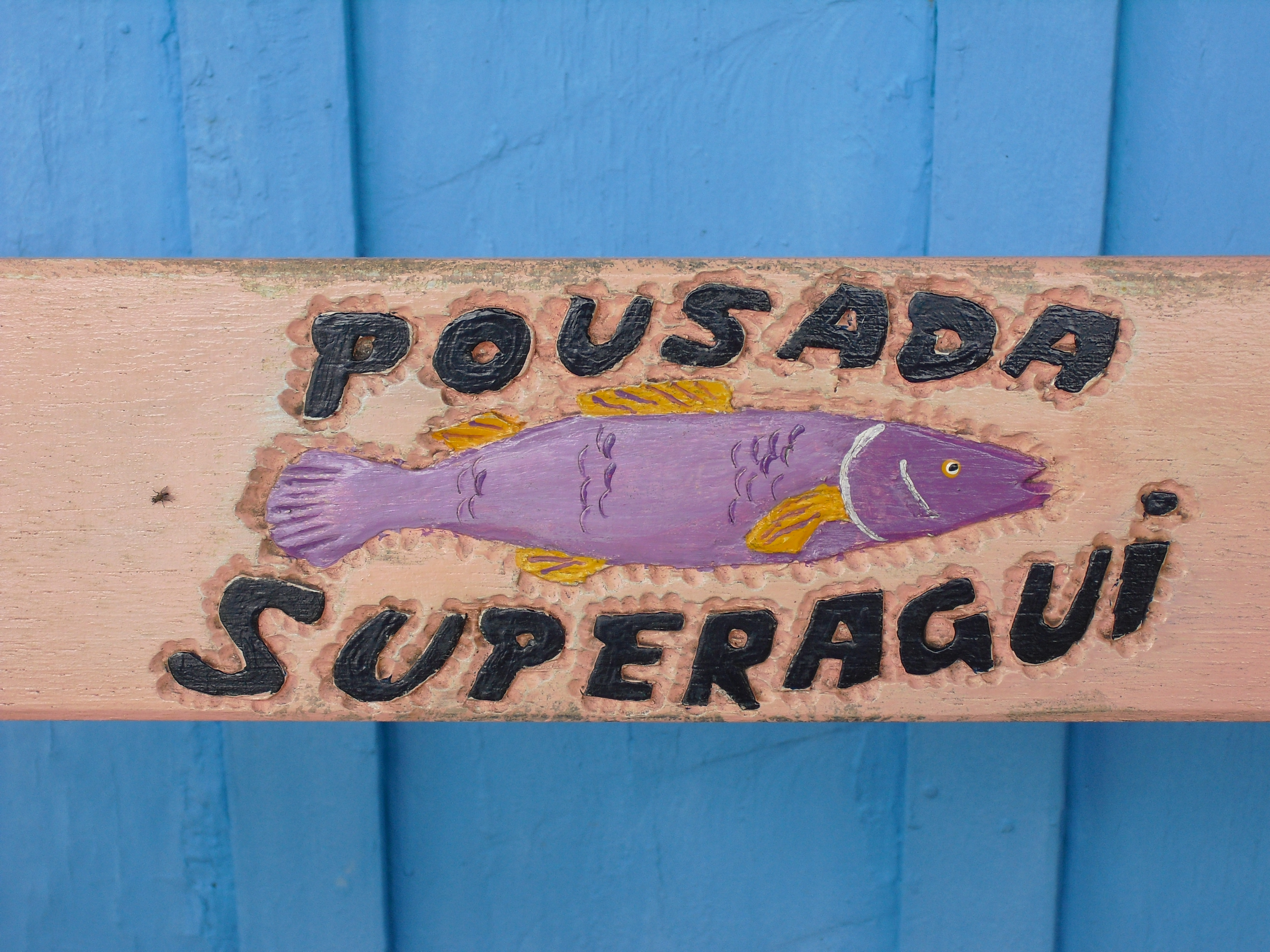 Pousada Superaguí, individual furnishings with carving